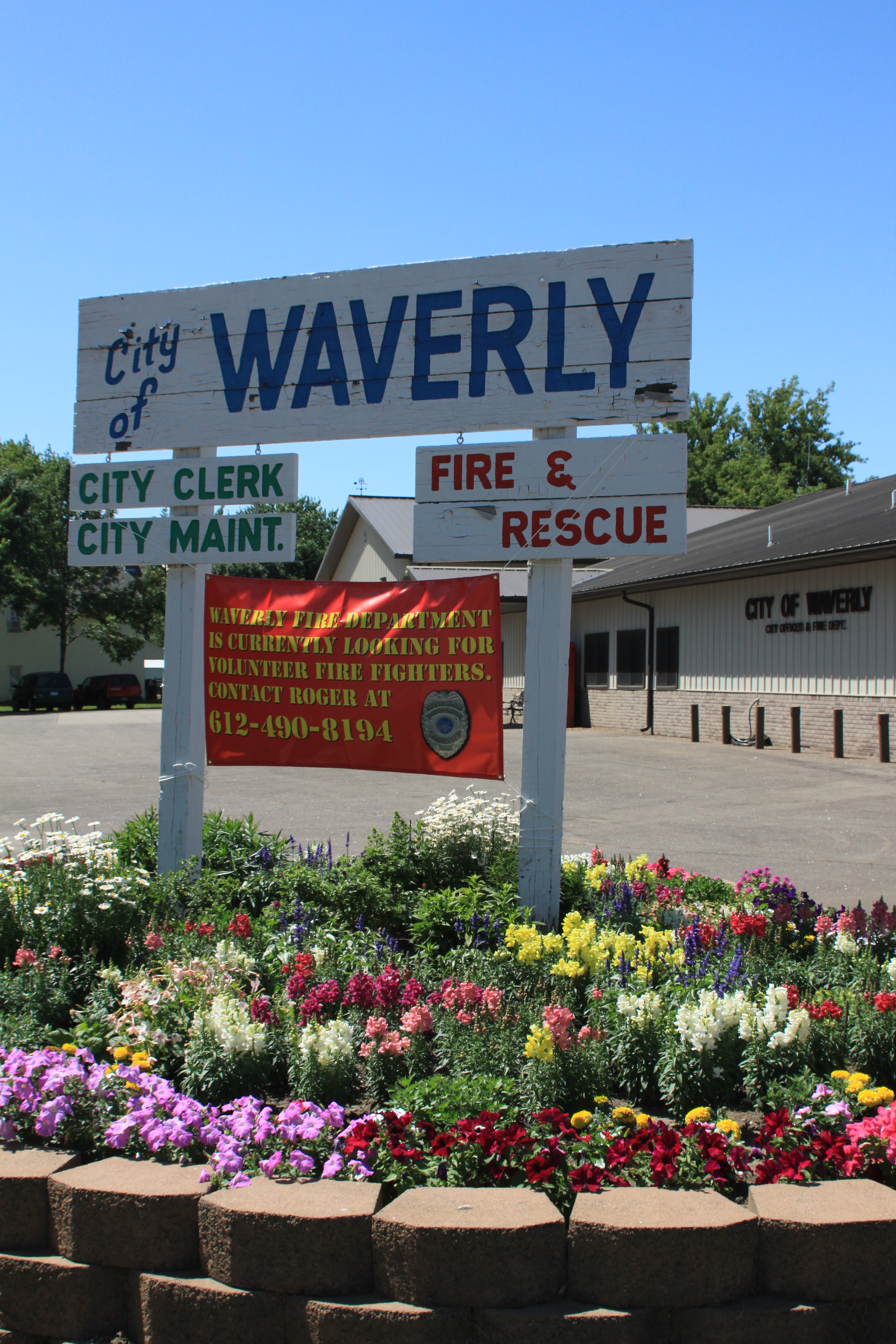 City offices in Waverly, Minnesota